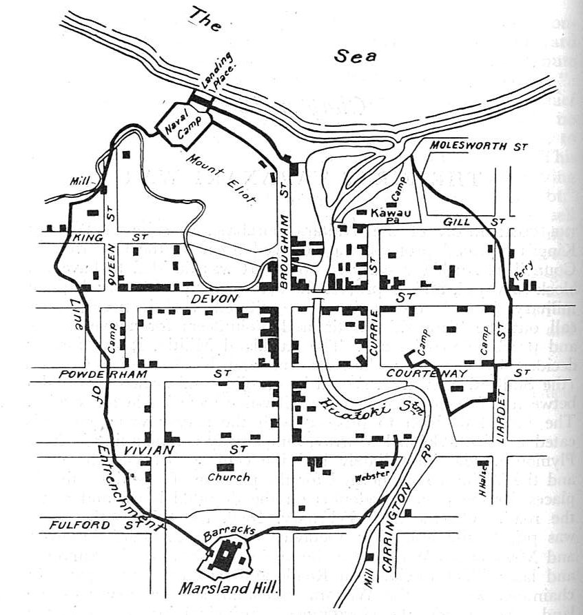 Plan of New Plymouth, 1860-61. New Plymouth, Taranaki, New Zealand. Showing the line of entrenchment surrounding the town, with Marsland Hill as the citadel.